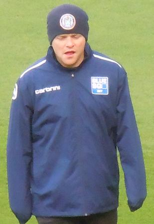 Dave McNiven whilst at Hyde in 2012